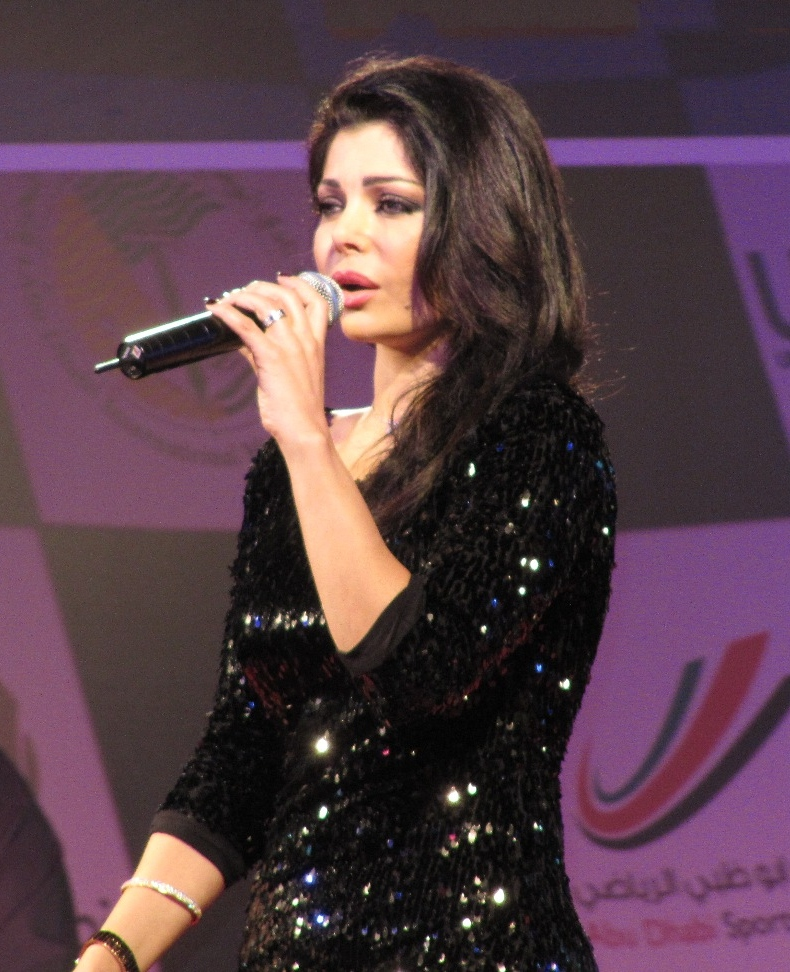 Haifa Wehbe during a F1 Powerboat World Championship's concert in Abu Dhabi